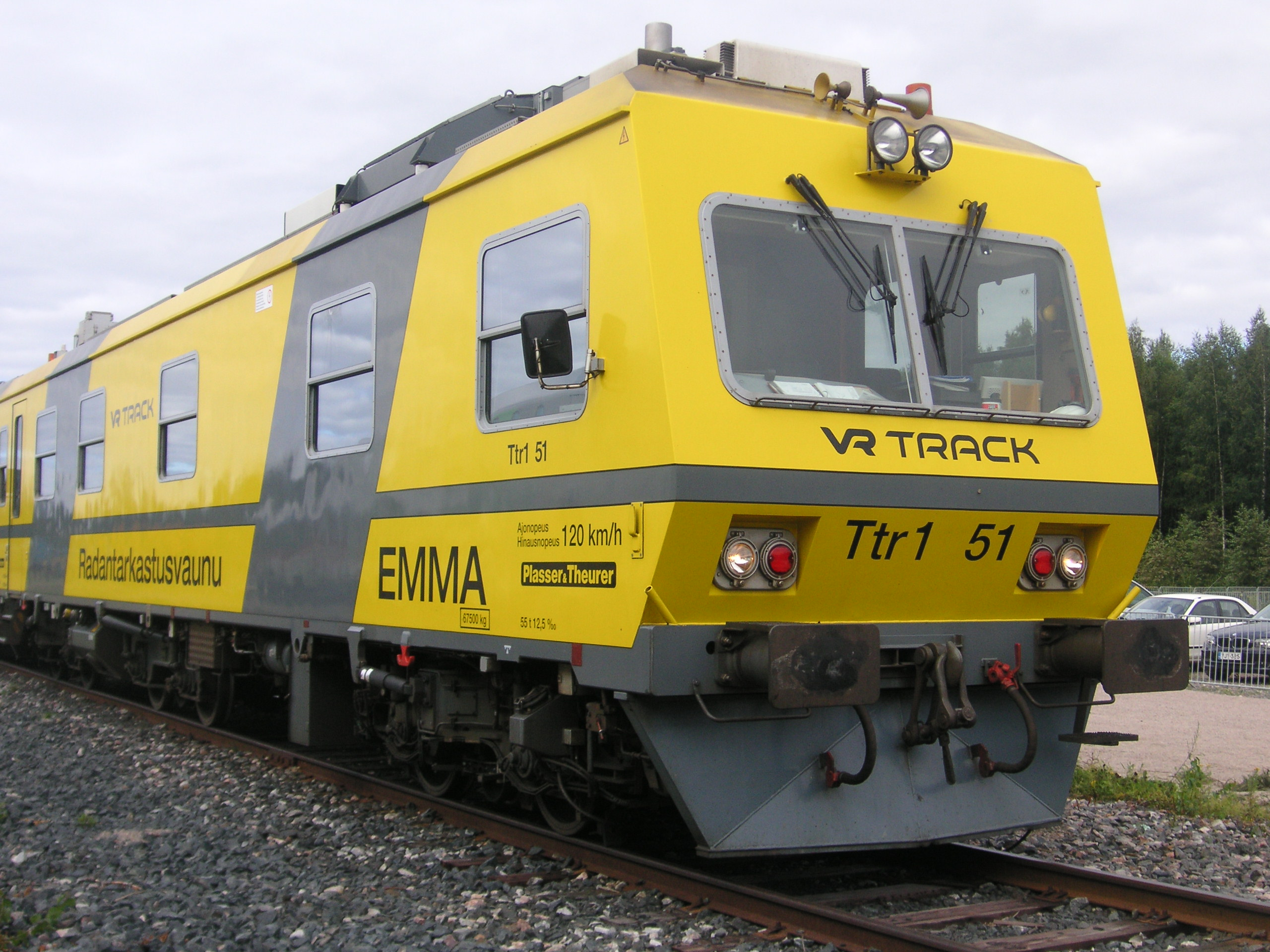 VR (Finnish State Railways) Ttr1 EMMA (Plasser & Theurer EM-120) track inspection vehicle at Hyvinkää on August 11, 2012.